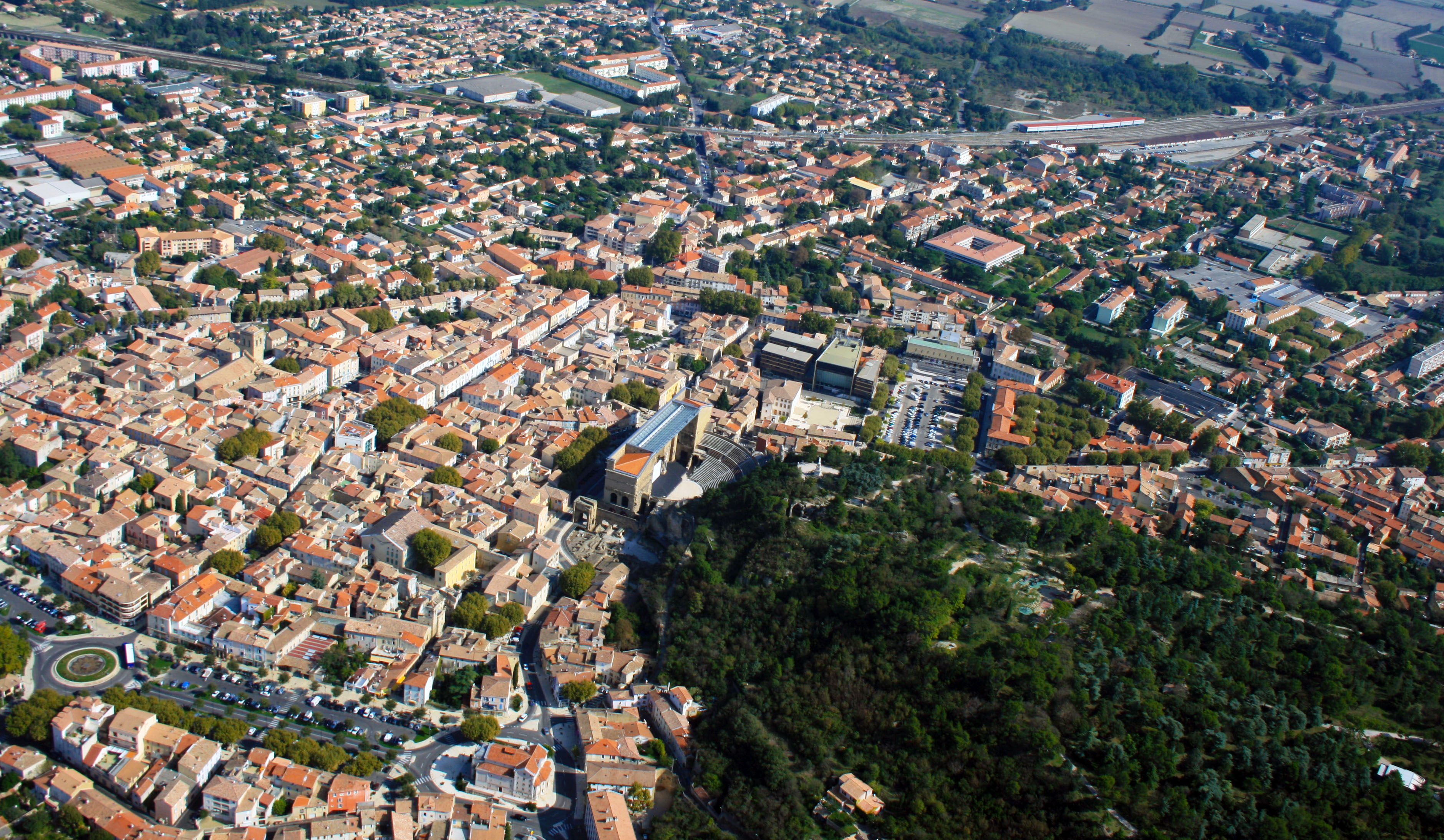 A view of central Orange from the west.